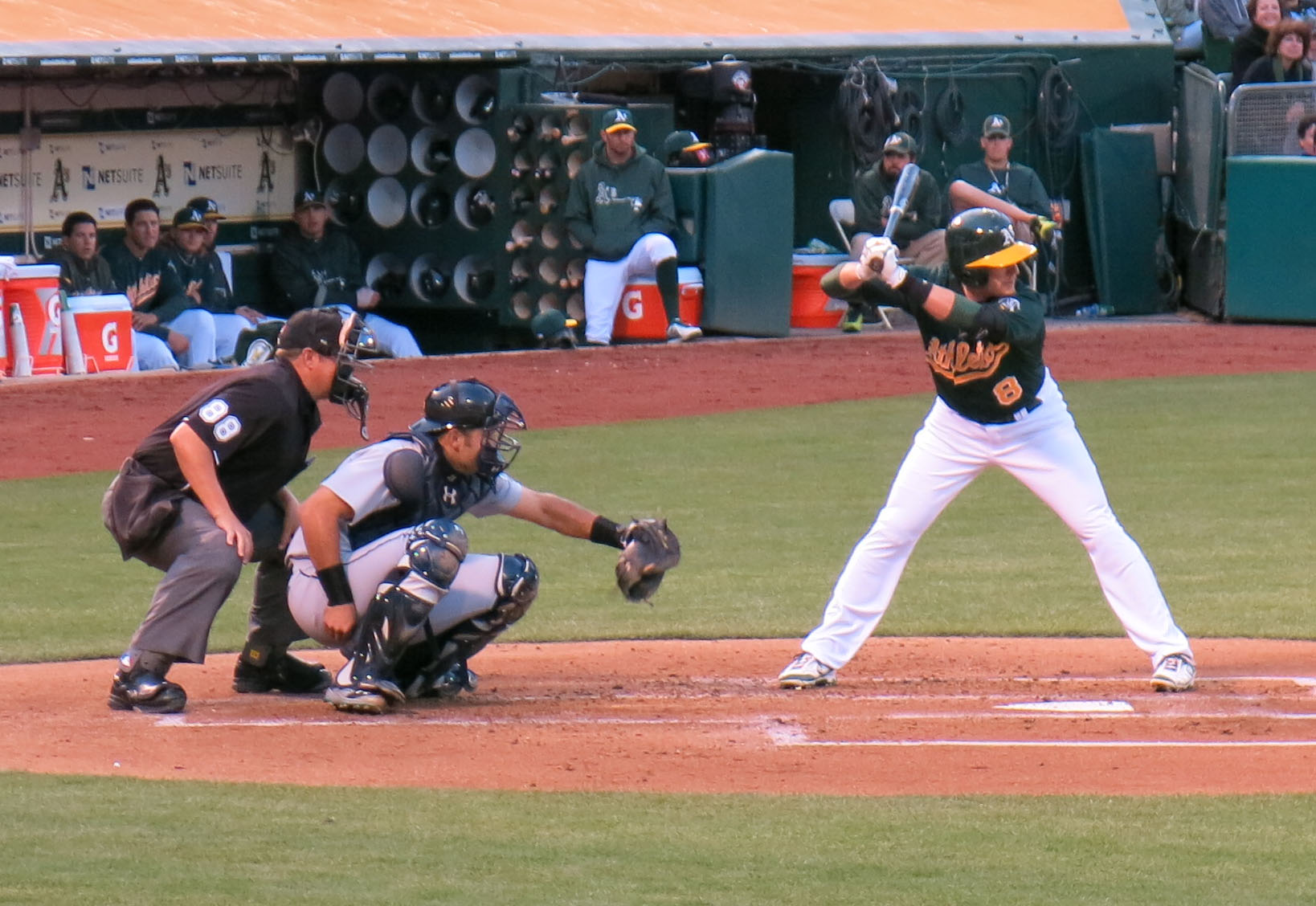 Oakland Athletics infielder Jed Lowrie bats in a game against the Seattle Mariners in Oakland.